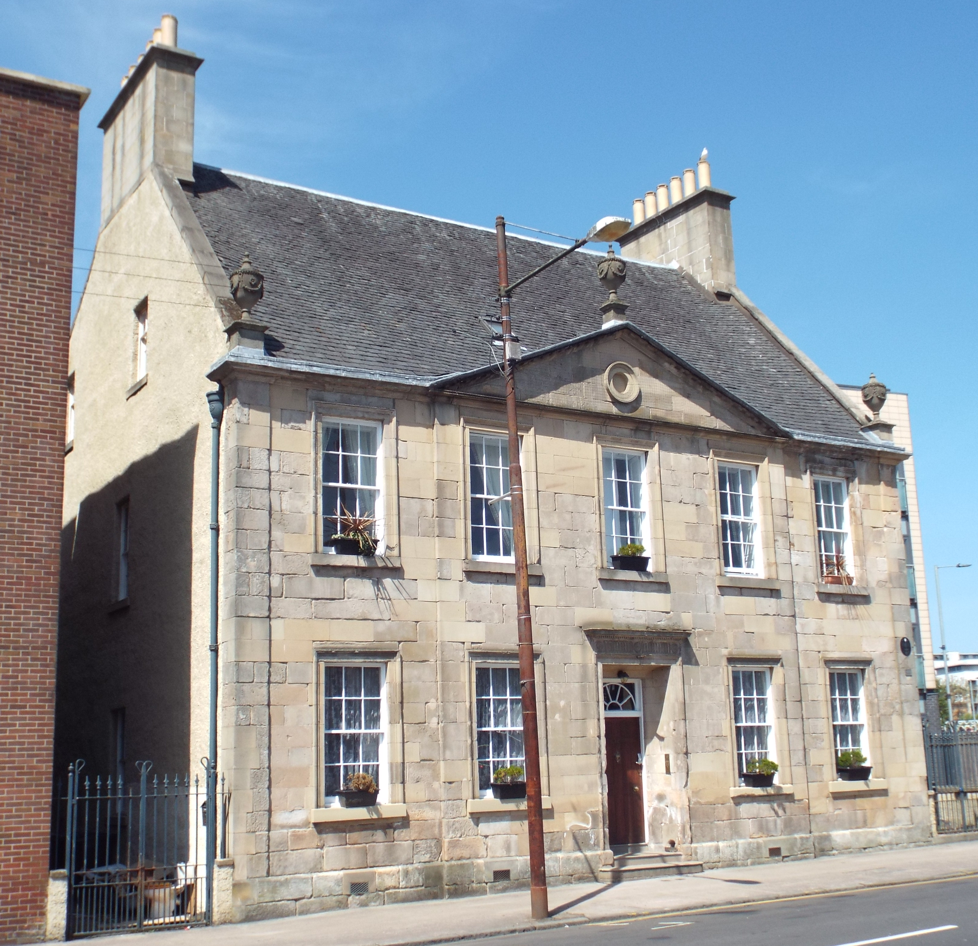 52 Charlotte Street, Glasgow